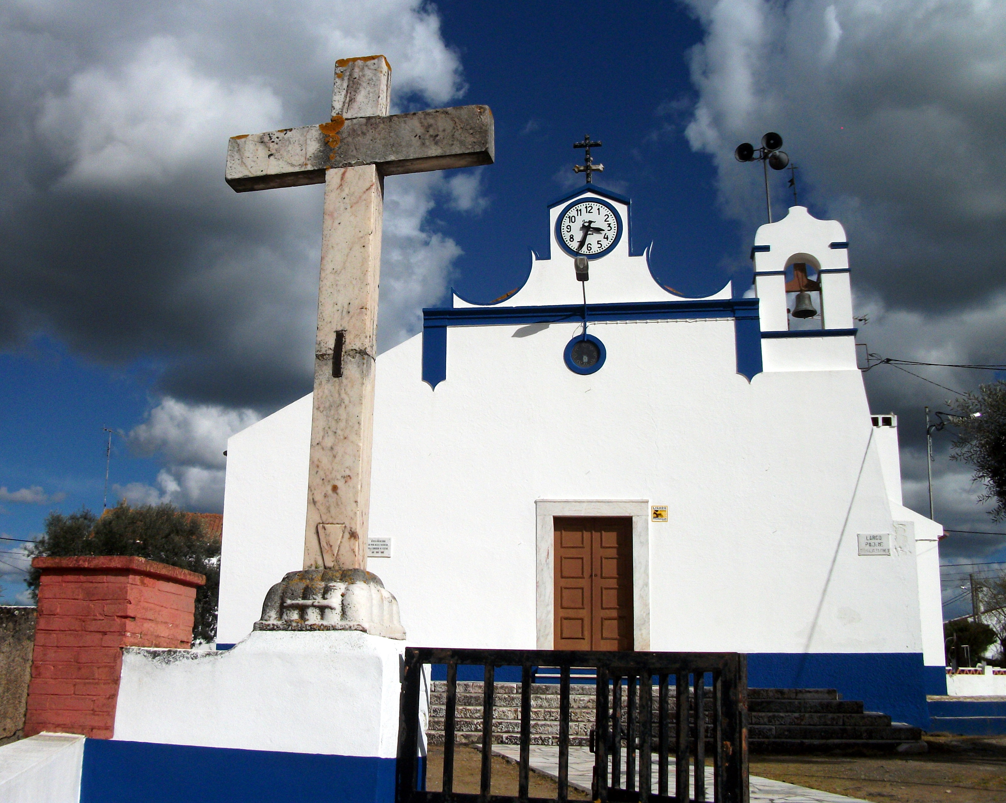 Church of São Bento do Cortiço, Estremoz, Portugal